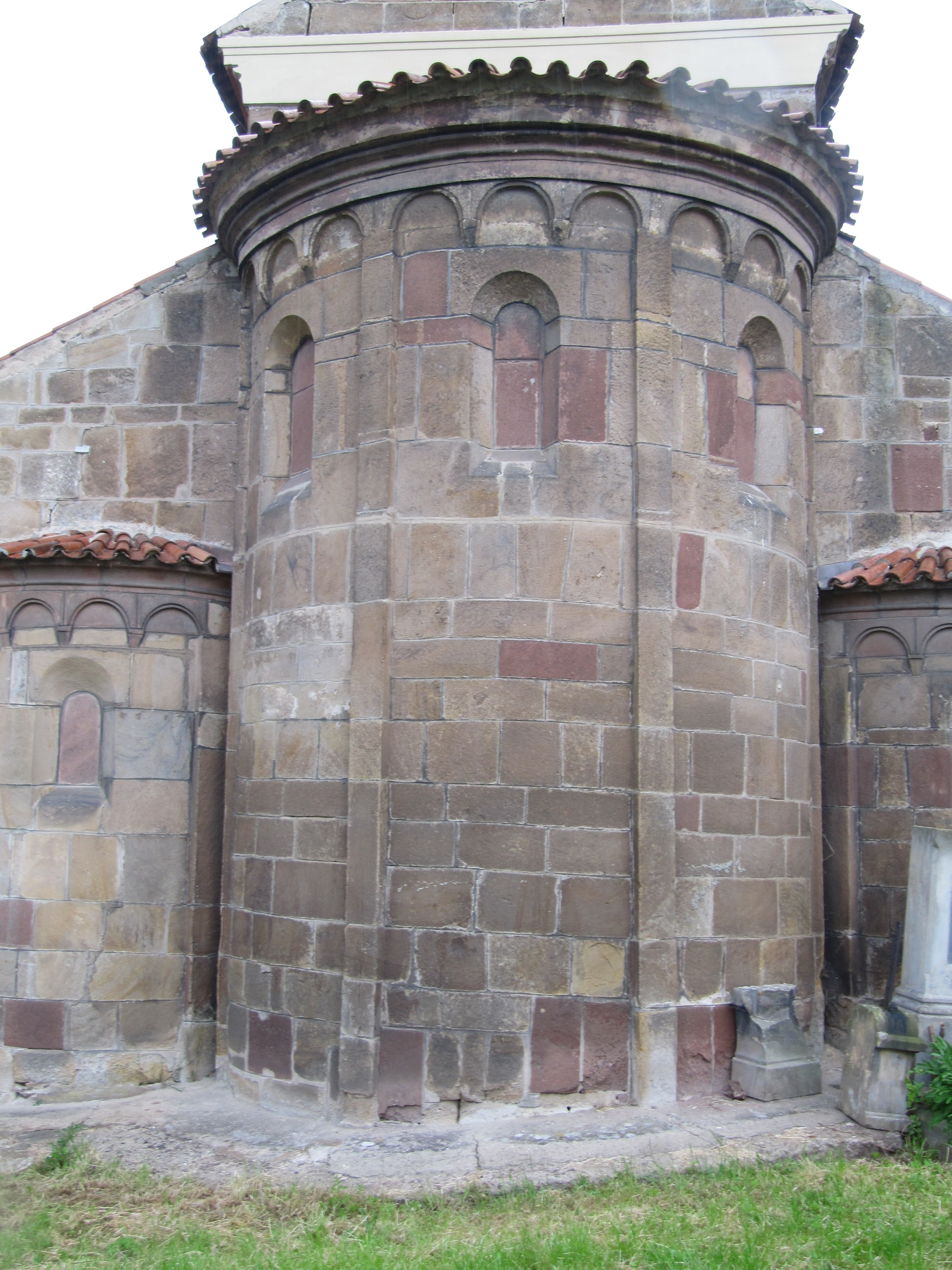 Tismice, Kolín District, Czech Republic. Basilica of the Assumption.